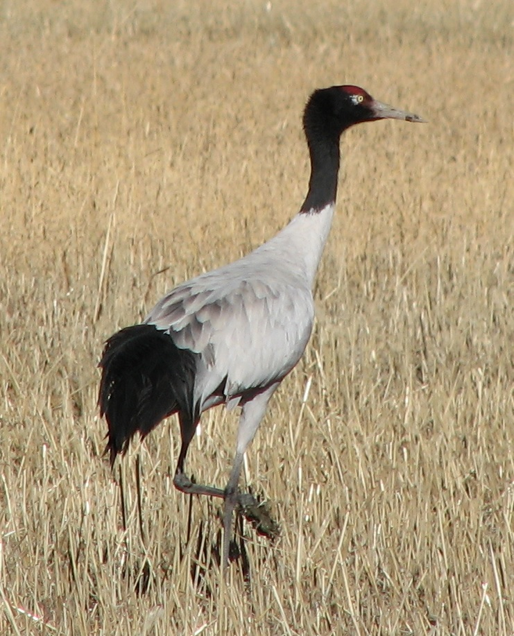 Black-necked crane at Pota Tso National Park - Yunnan